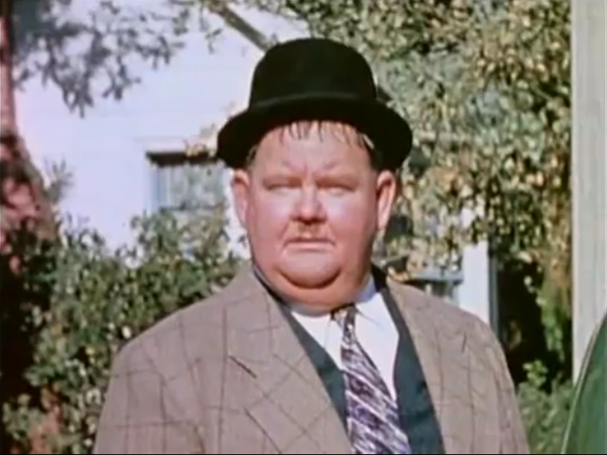 Oliver Hardy in a still from the short film "The Tree in a Test Tube", time code: 00:20 (format: minutes:seconds)